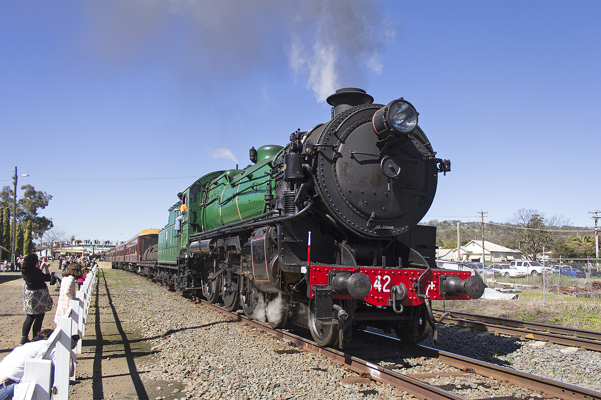 3642 locomotive departing Wagga Wagga Railway Station.